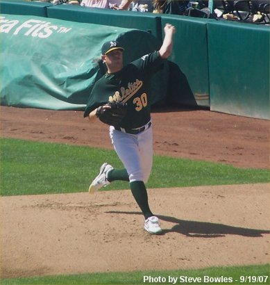 Dan Meyer warms up before a game in 2007 07:22, 27 September 2007 . . Gimpy56 . . 389×410 (36 KB)